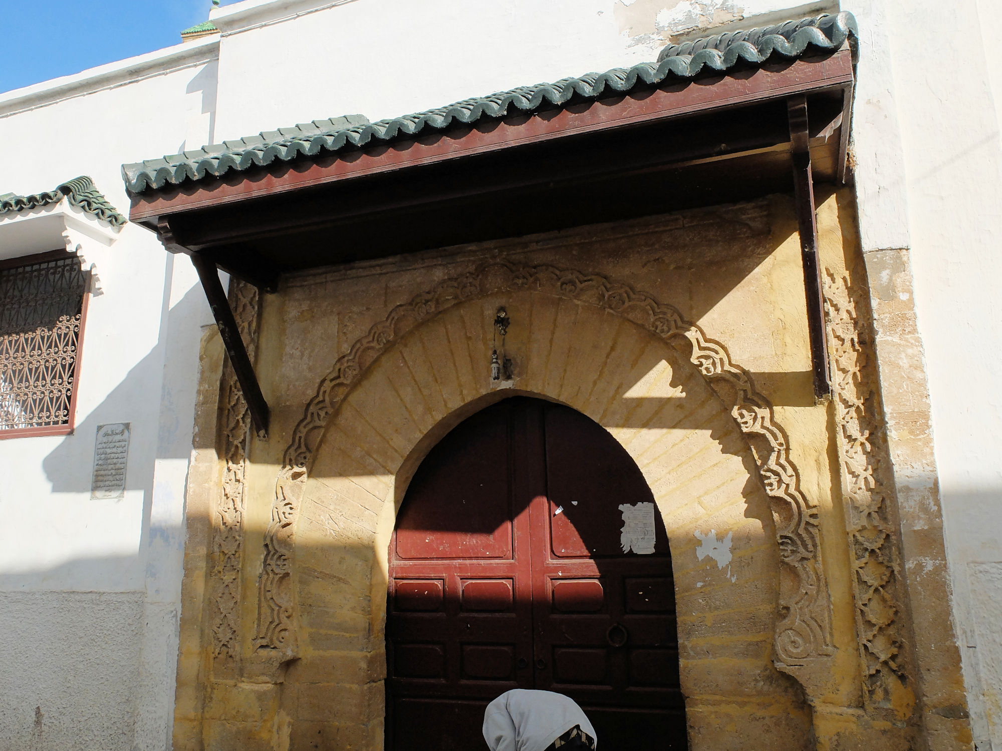 Entrance of Great Mosque, founded in Marinid era, located in the Rabat medina.